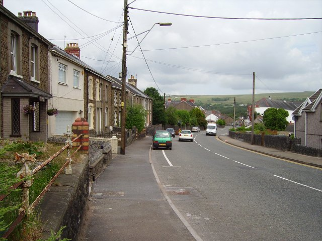 Garnant. Mining village high in Cwm Aman. On the edge of the coalfield with older limestones appearing at the surface nearby on the Black Mountain.